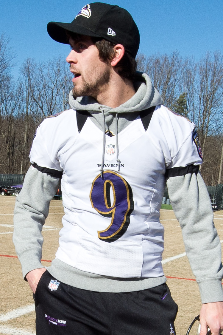 Governor Martin O'Malley talks with Baltimore Ravens kicker Justin Tucker.